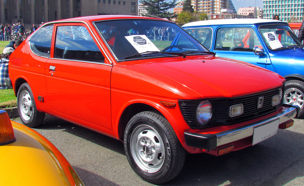 Suzuki Cervo CX-G 1979 in Chile